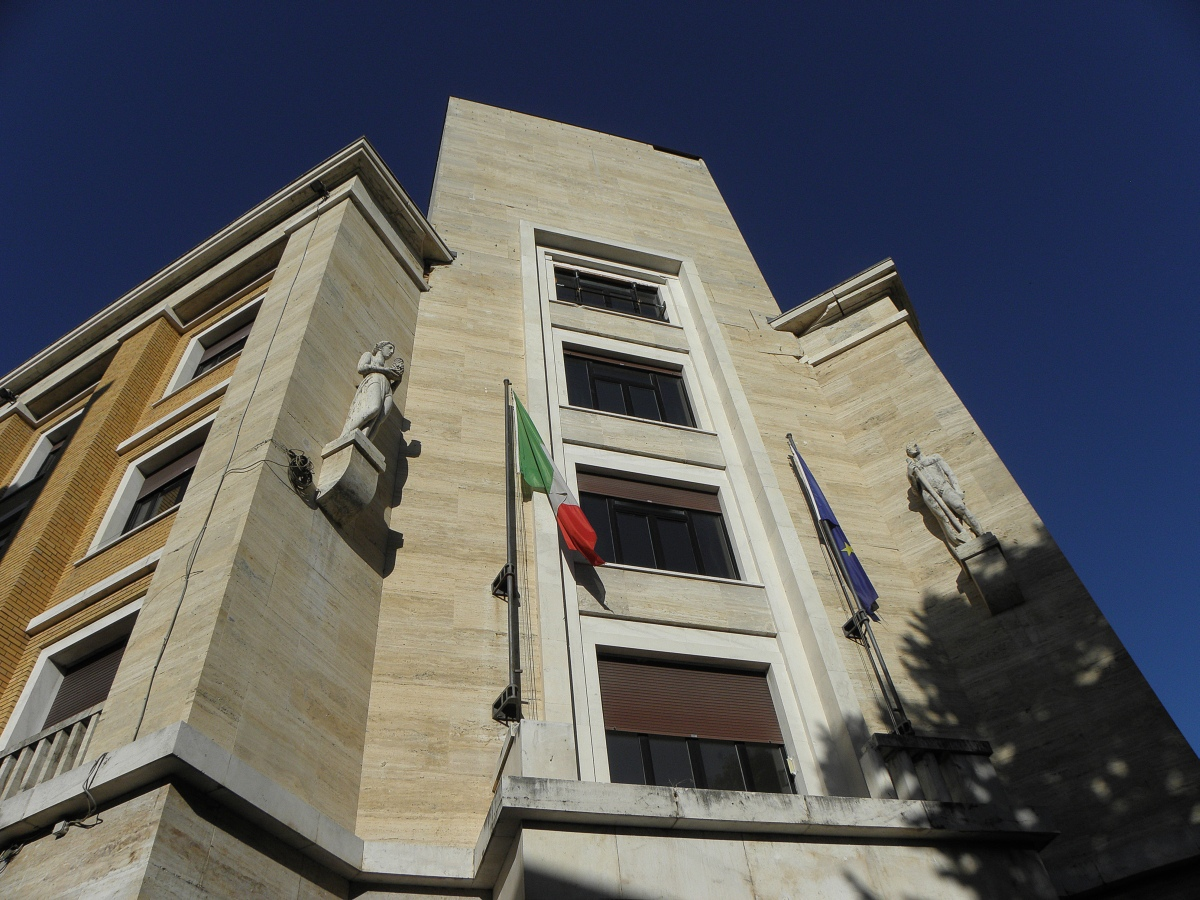 L'Aquila 2010